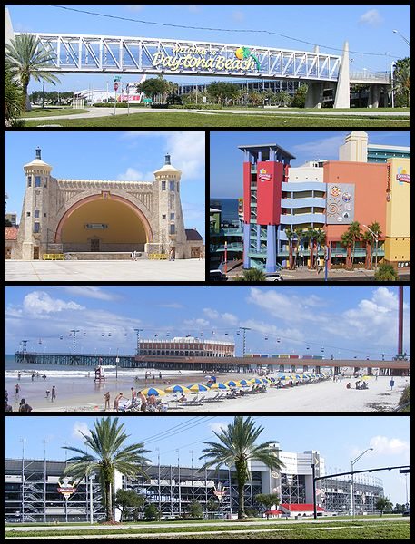 Montage of Daytona Beach, Florida, photos for infobox. From top, left to right: Welcome sign when entering Daytona Beach; Daytona Beach Bandshell; Ocean Walk Shoppes; Daytona Beach Pier; Daytona International Speedway. (All individual photos taken by Gamweb).